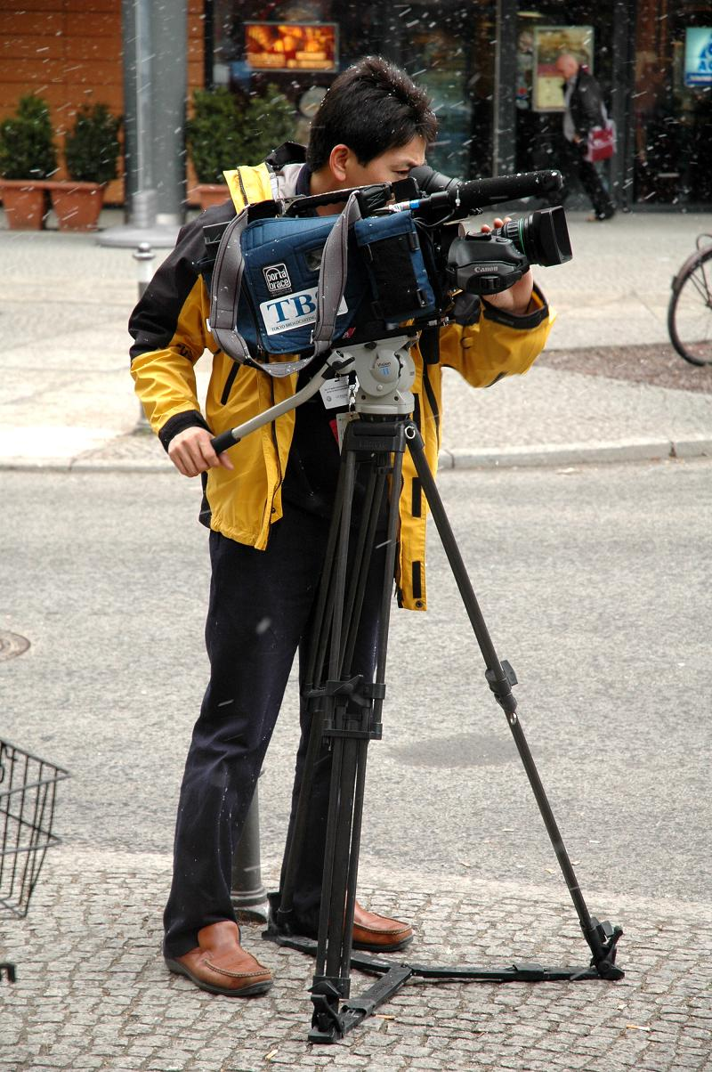 A cameraman from Tokyo Broadcasting System Television in action in Berlin.